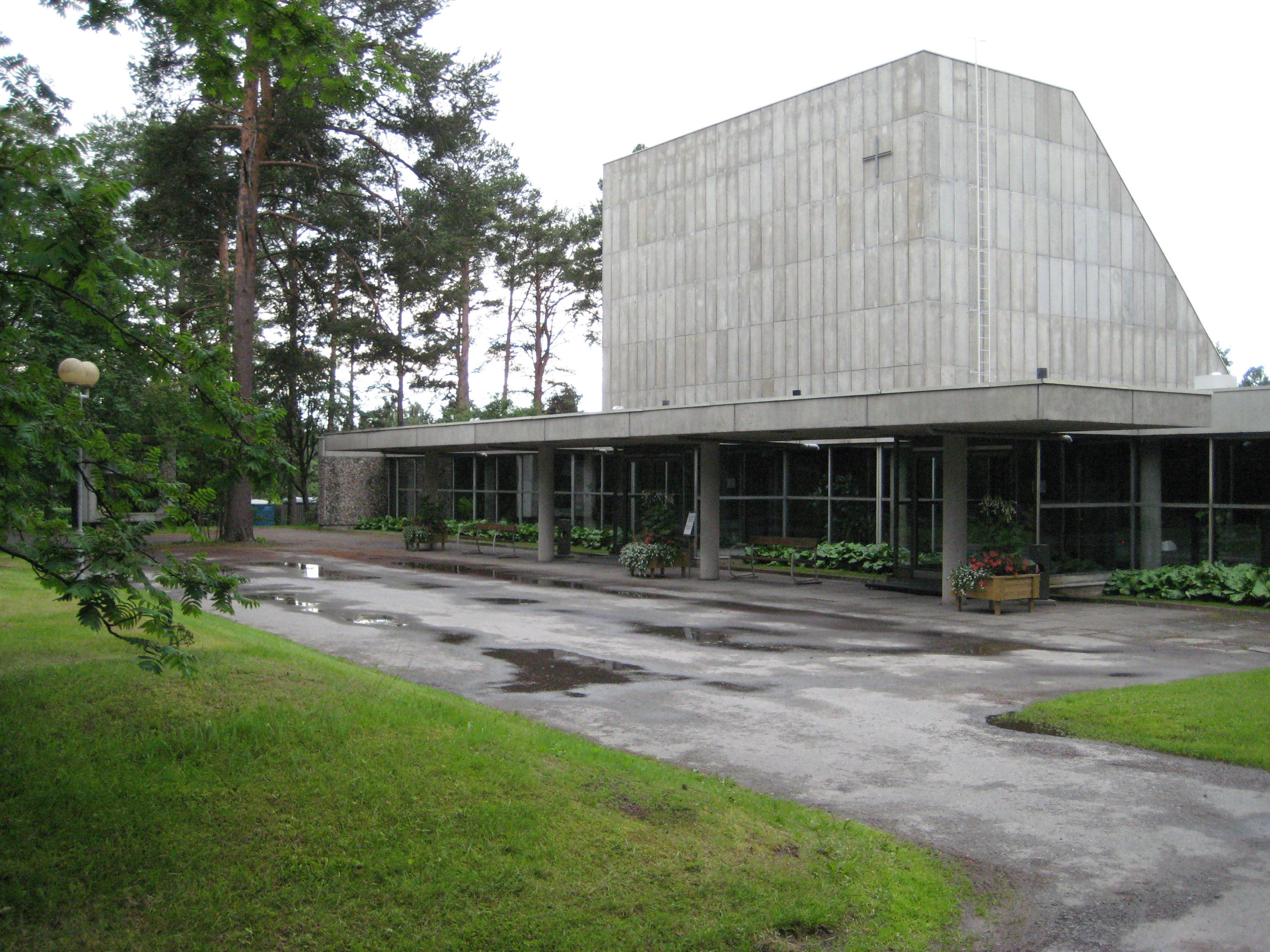 Intiö Chapel (The New Chapel) at Oulu cemetery, Intiö, Oulu, Finland. The chapel was design by architect Seppo Valjus, and it was inaugurated in 1973.